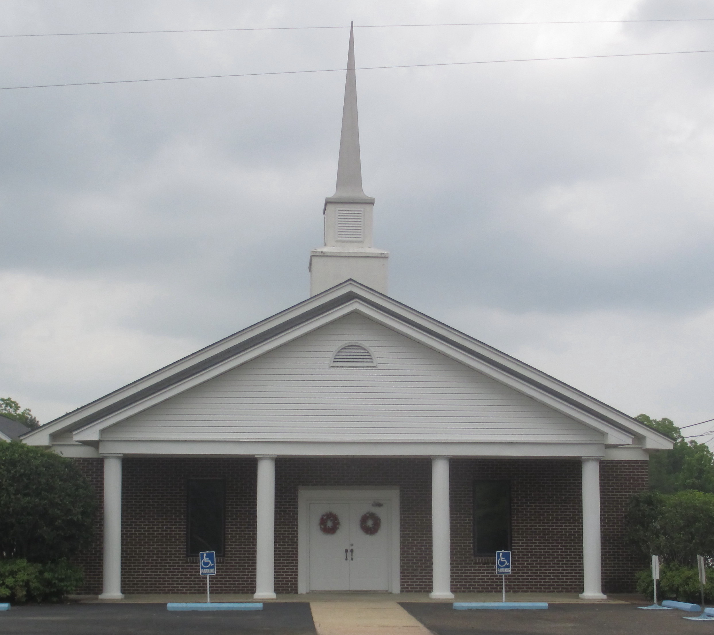 I took photo of Epps Baptist Church in Epps in West Carroll Parish, LA, with Canon camera.